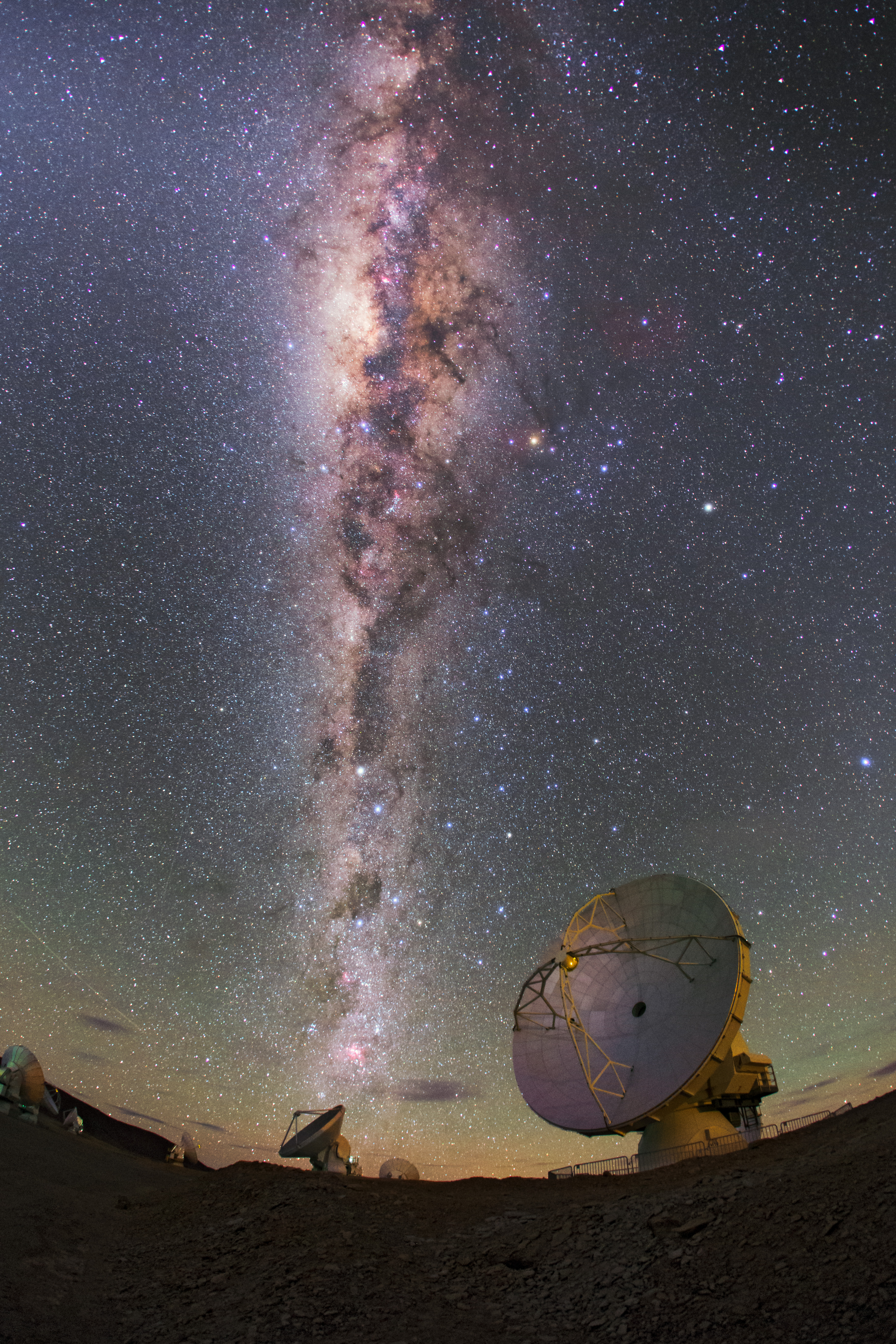 The Milky Way glitters brightly over ALMA antennas, in this image taken by the ESO Ultra High Definition Expedition team as they capture the site in 4K quality.